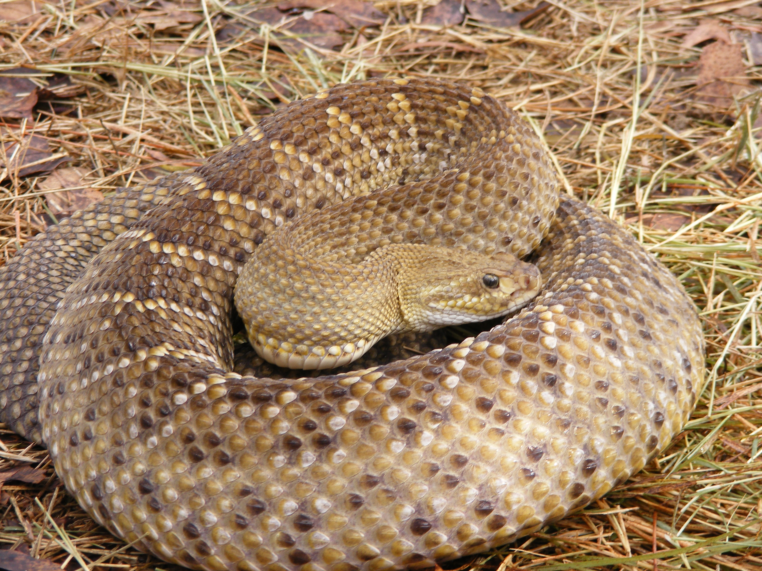 mexican green rattlesnake